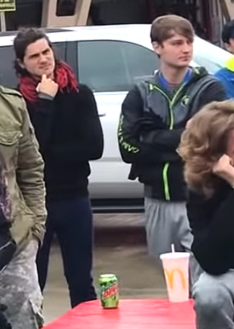 Anthony Padilla and James Rallison in a Leon Lush vlog on March 12, 2019.